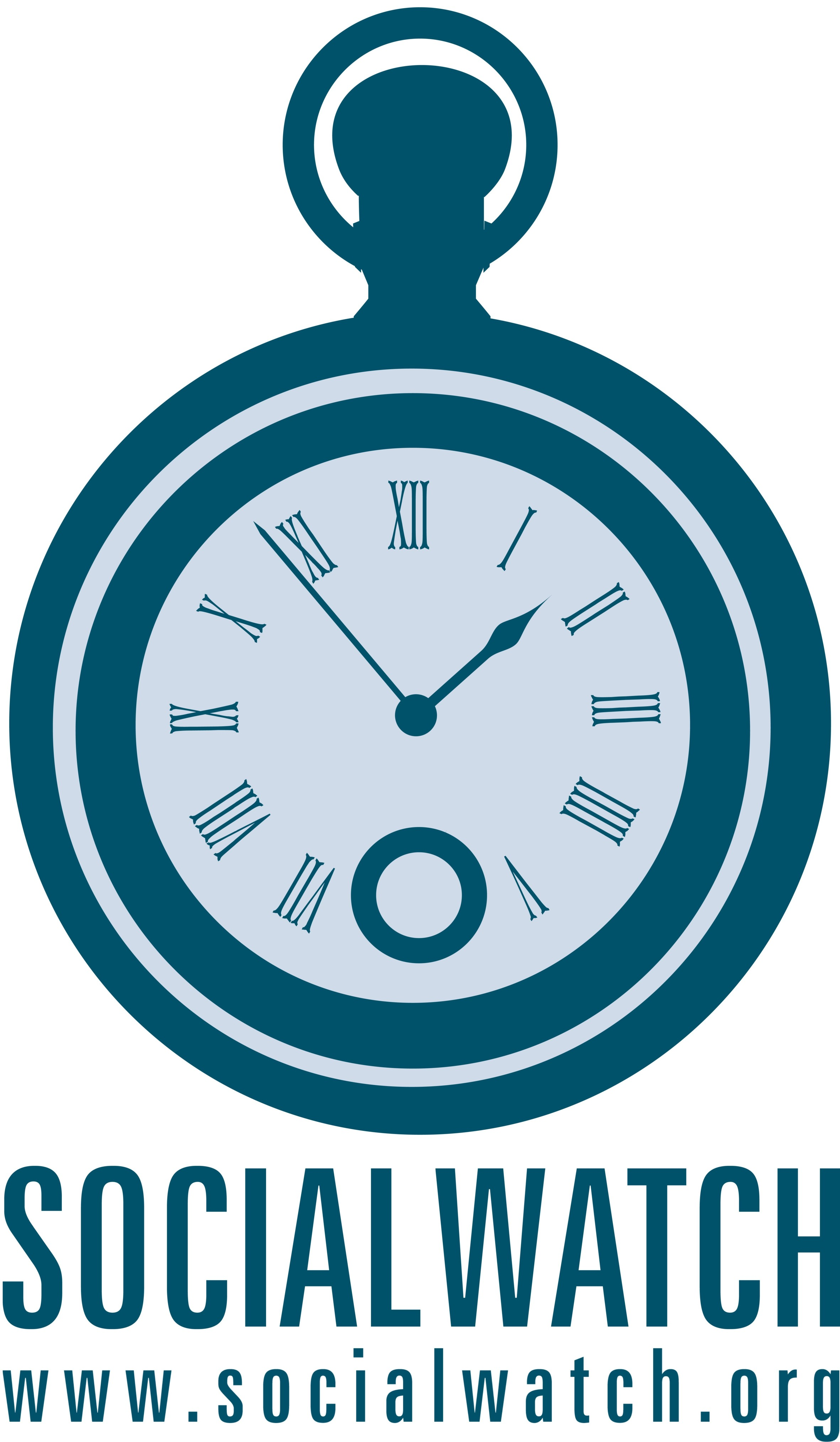 Social Watch logo